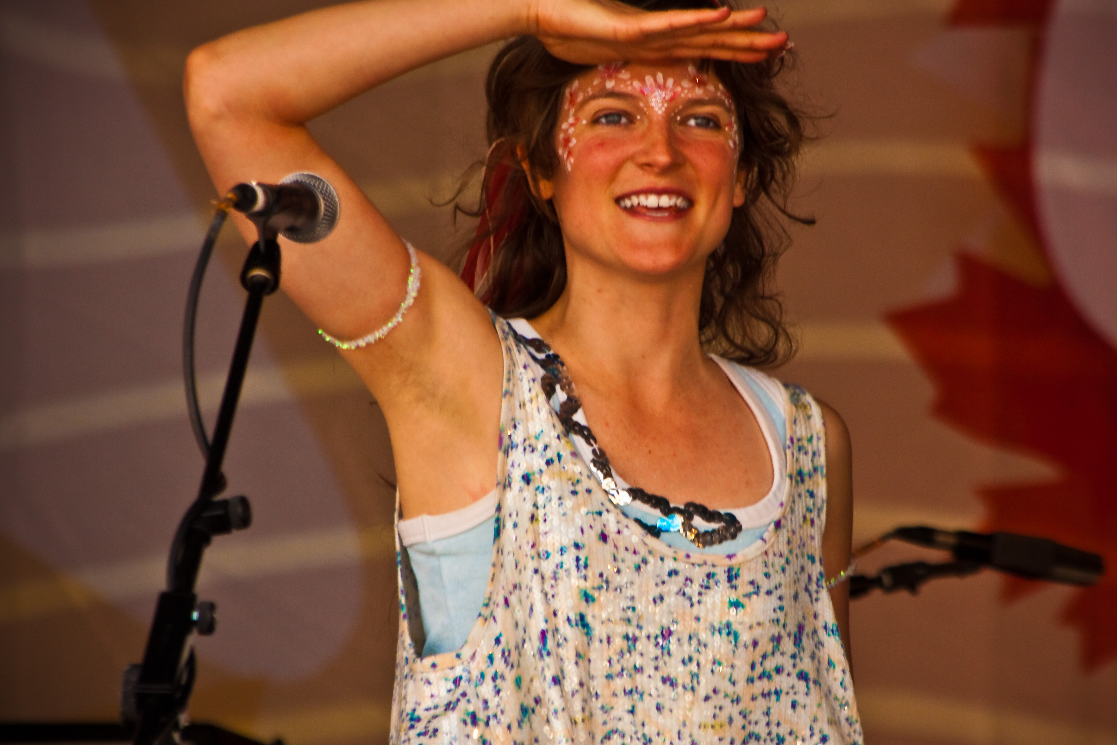 Devon Sproule on stage at the 2011 Canada Day festival at Trafalgar Square in London, England.